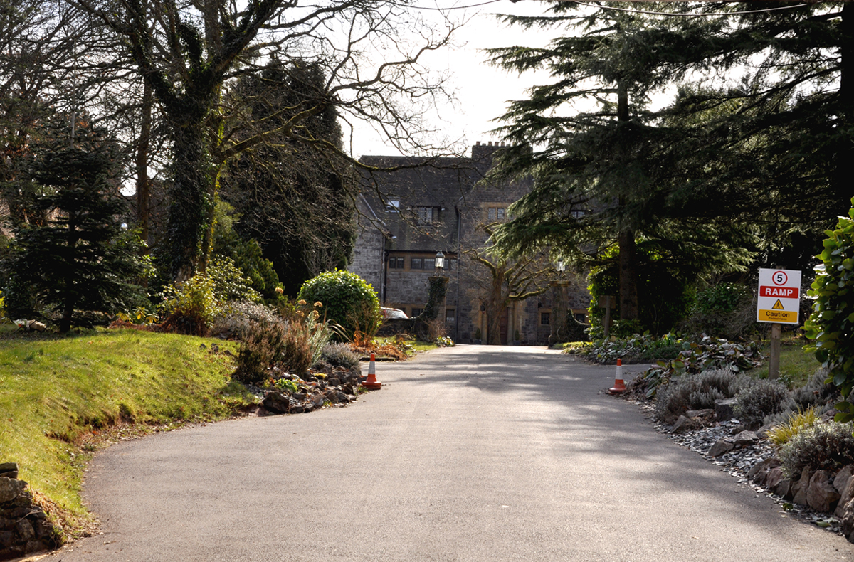 Craig-y-Parc School - Pentyrch Formerly a private residence built in the Arts and Crafts style between 1913 and 1915. It survives as a purpose built school catering for children with cerebral palsy and related conditions.